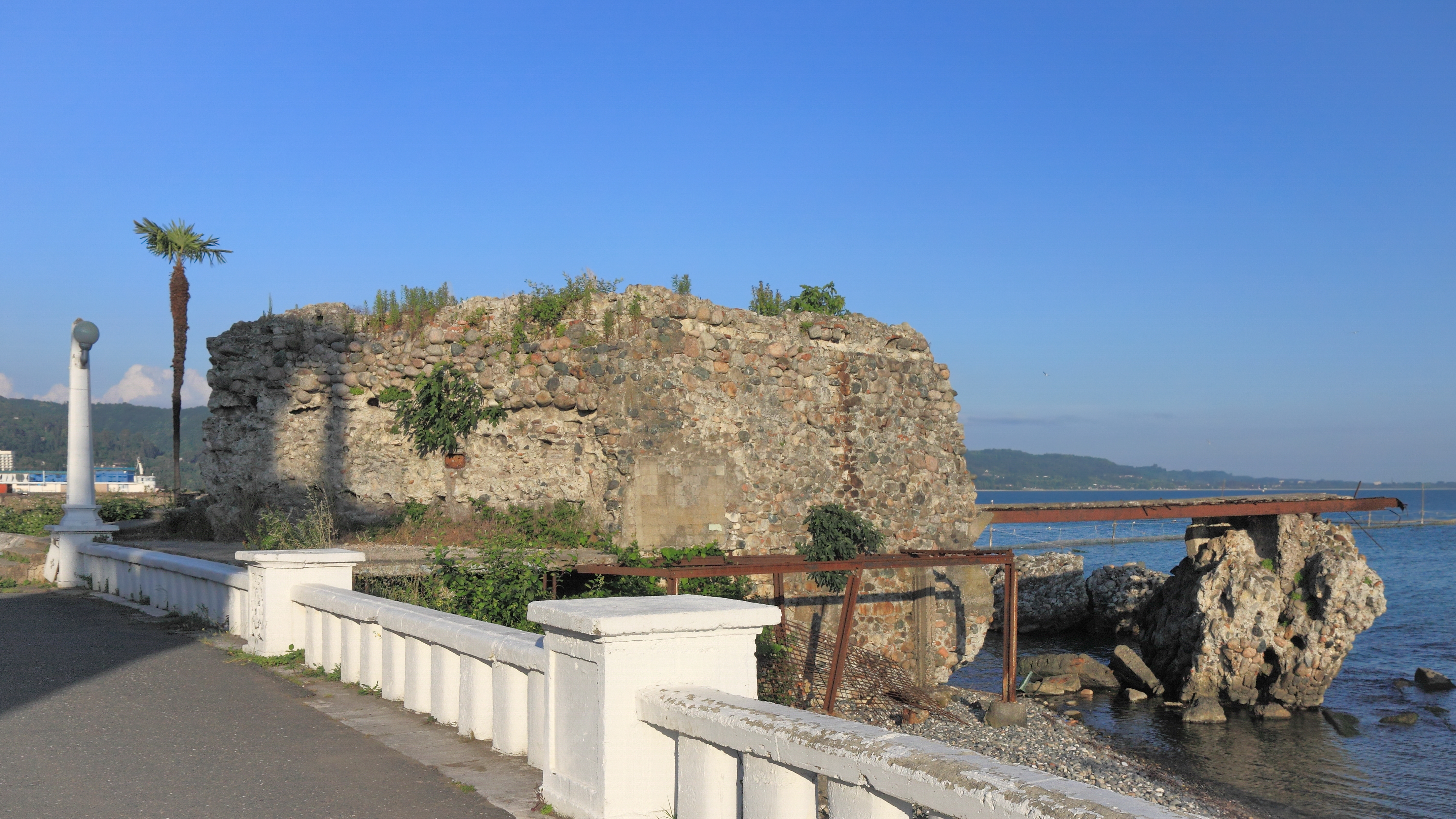 The ruins of the ancient Dioscuria seen from the north-west. Sukhumi, Abkhazia.